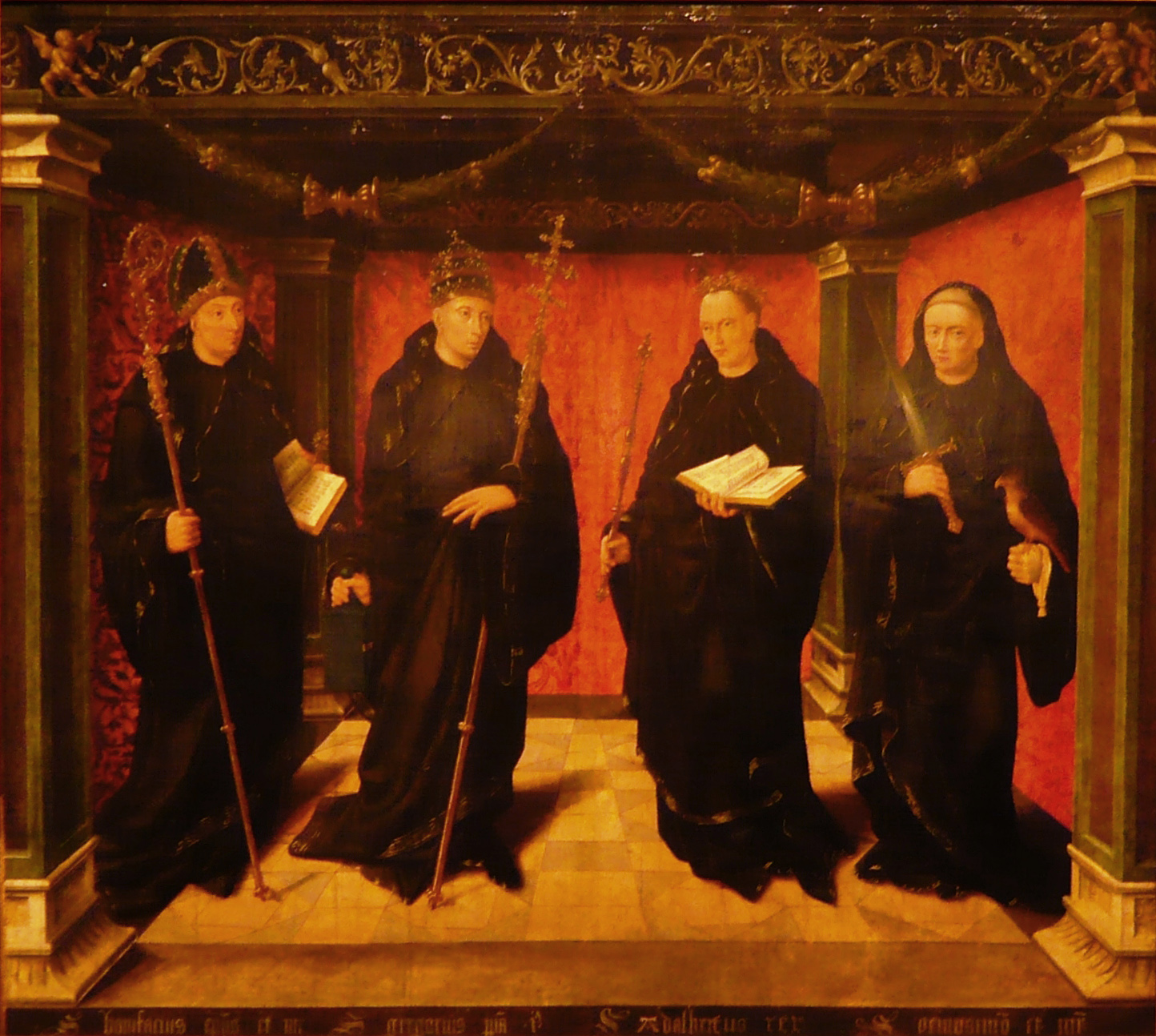 The benedictine saints Bonifatius, Gregorius the Great, Adelbertus of Egmond and priest Jeroen van Noordwijk